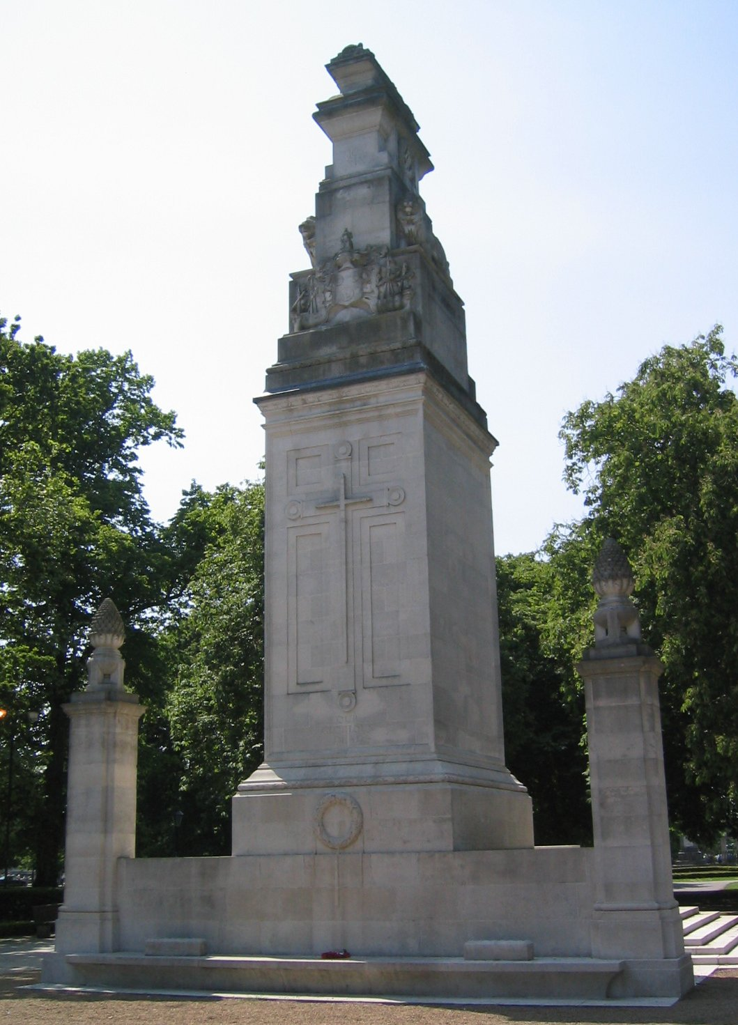 Sir Edwin Lutyens' cenotaph to the dead of World War I in Southampton, UK. It was unveiled on 6 November 1920, originally with 1800 names, later increased to 2008.